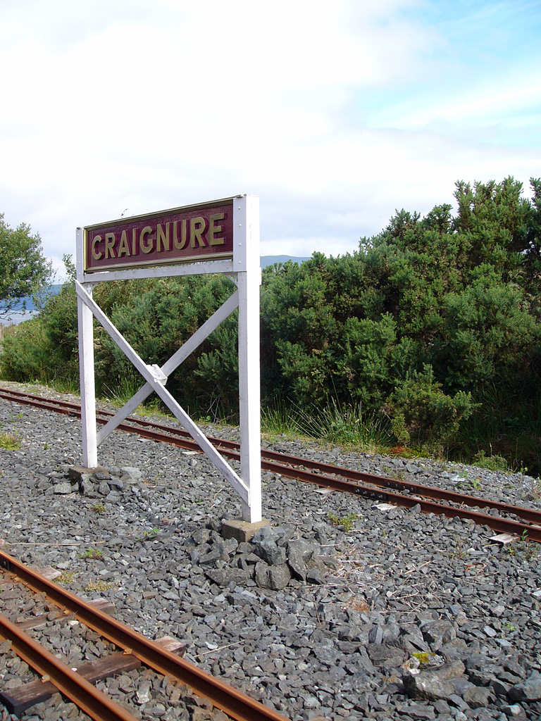 Departure from Craignure via the small train toward Torosay Castle.